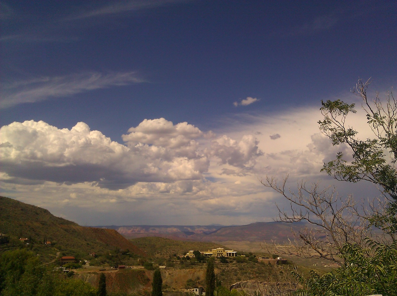 Jerome Historic District